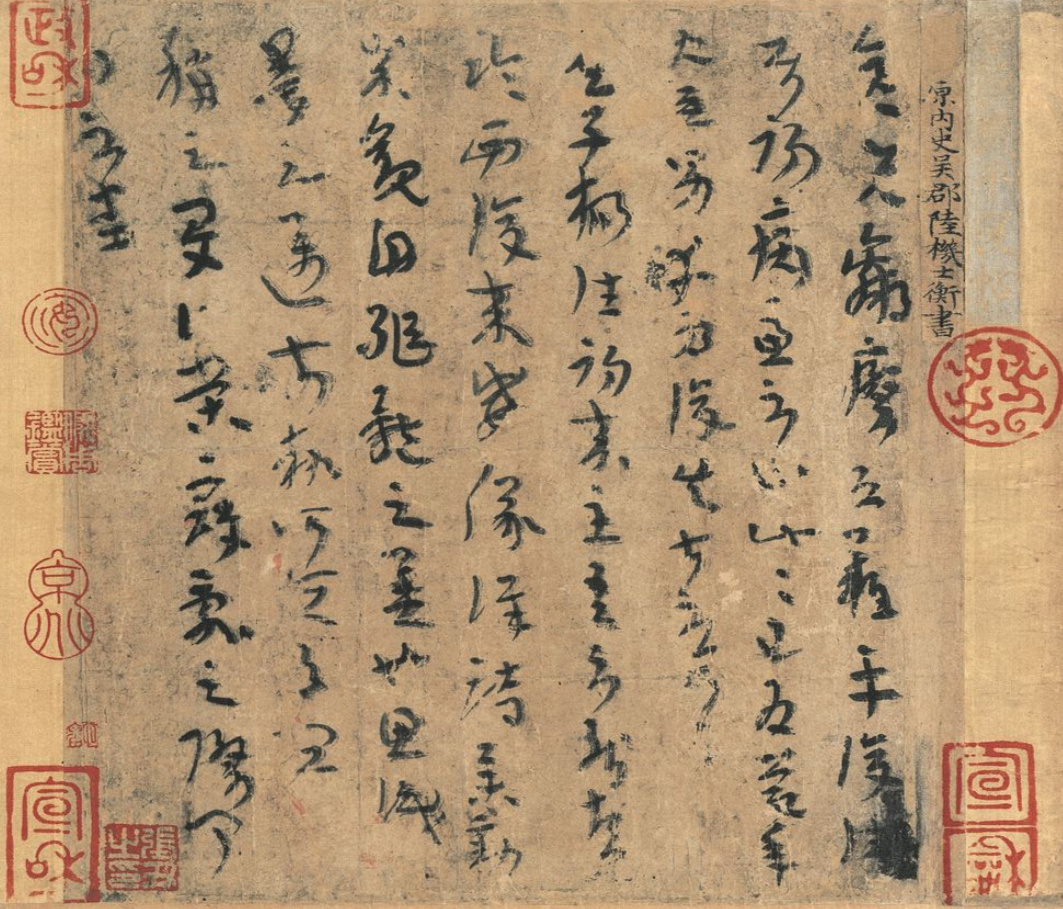 Ping Fu Tie written by Lu Ji, collection of the Palace Museum, Beijing.